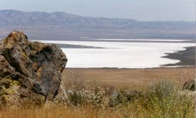 Soda Lake in Carrizo Plain National Monument, central California.